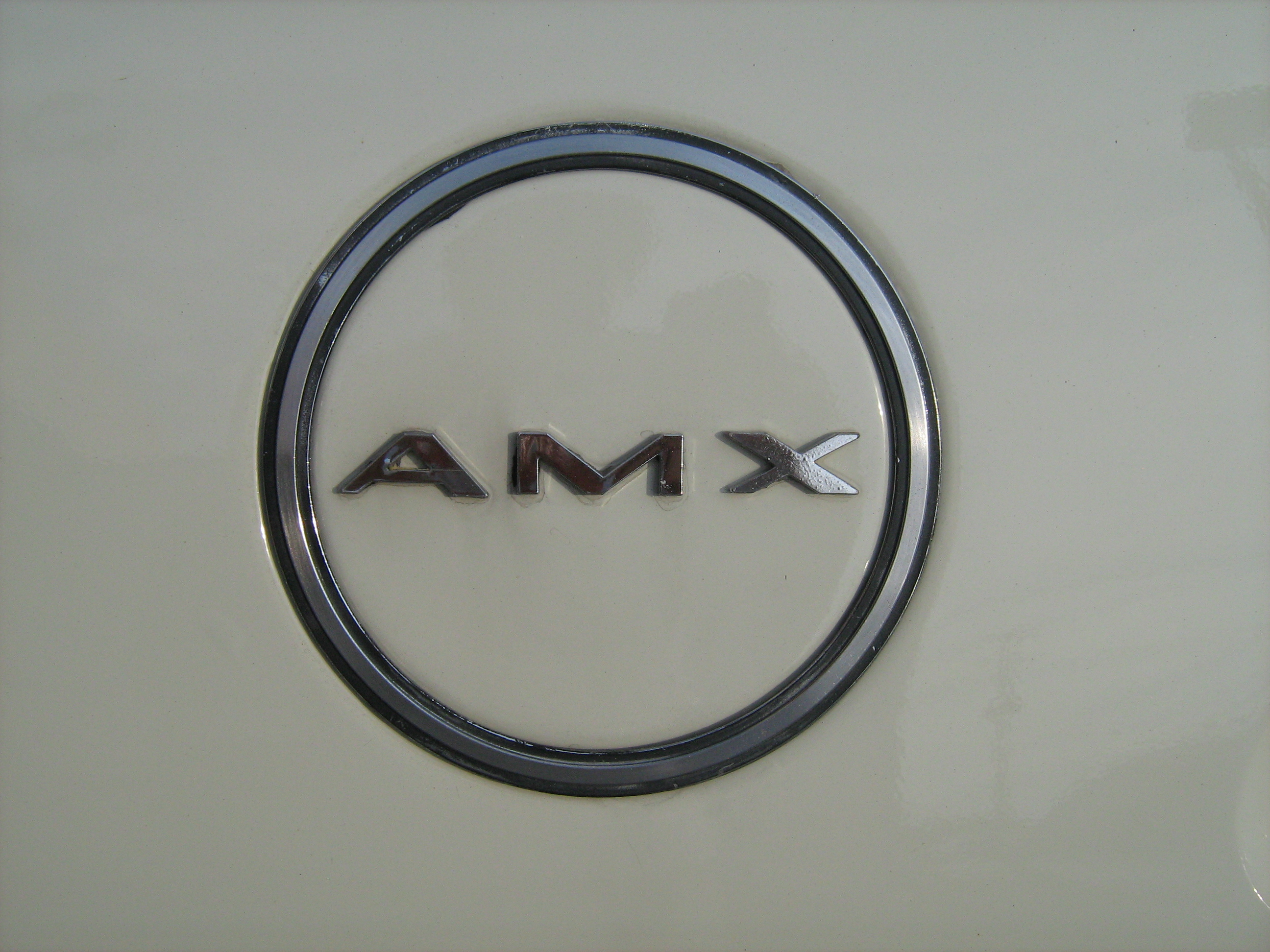 AMX badge on the "C-pillar" of 1968 and 1969 models. Made by American Motors Corporation (AMC)